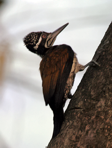 Greater Flameback (Chrysocolaptes guttacristatus) at Narendrapur near Kolkata, West Bengal, India.